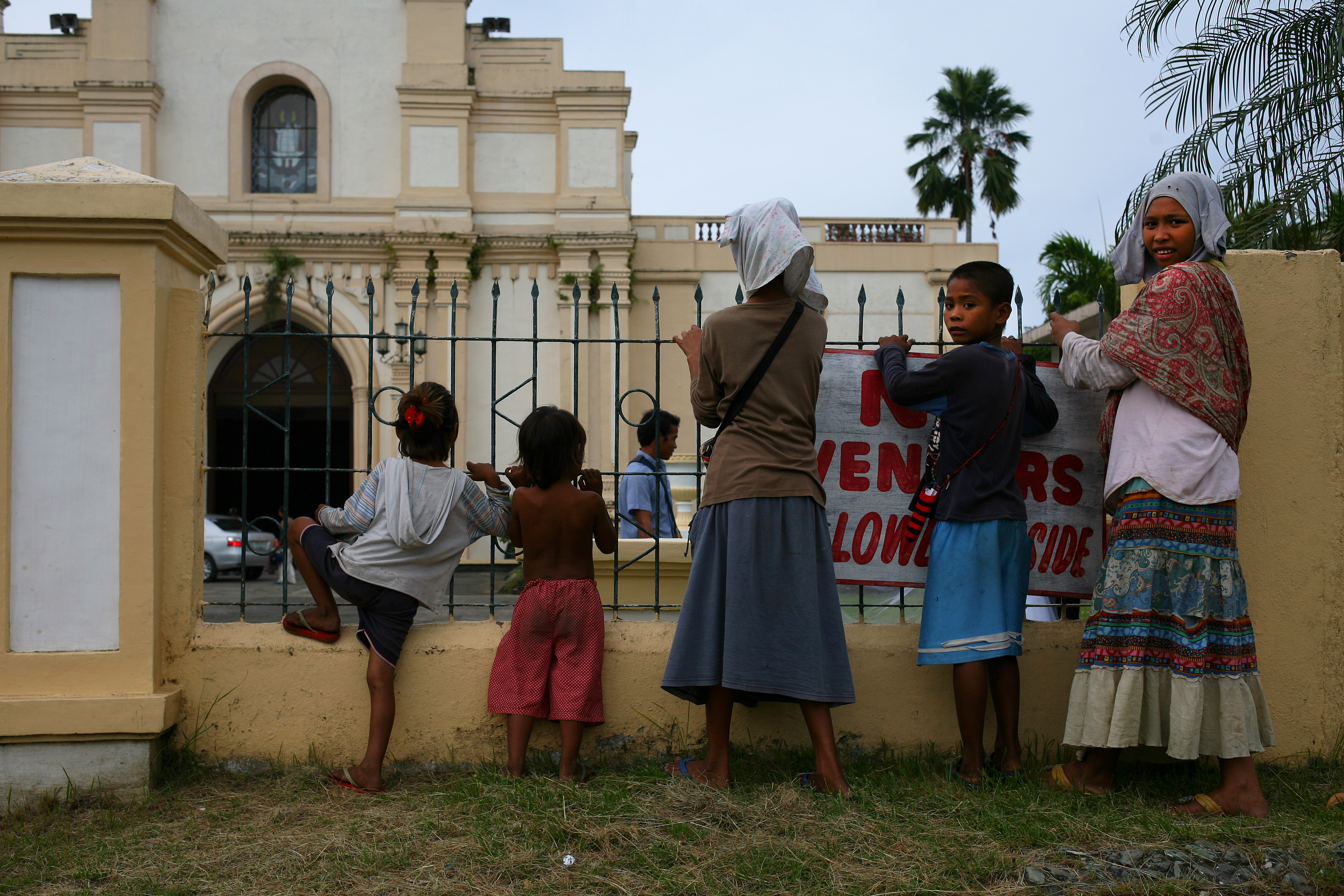 An Aeta family in their traditional outfit at Kalibo, Aklan, Philippines